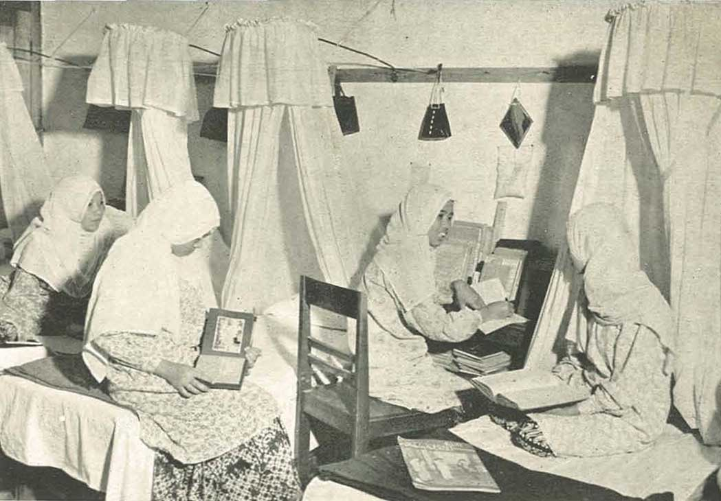 Women in dormitory of Sekolah Tinggi Islam, Bukittinggi